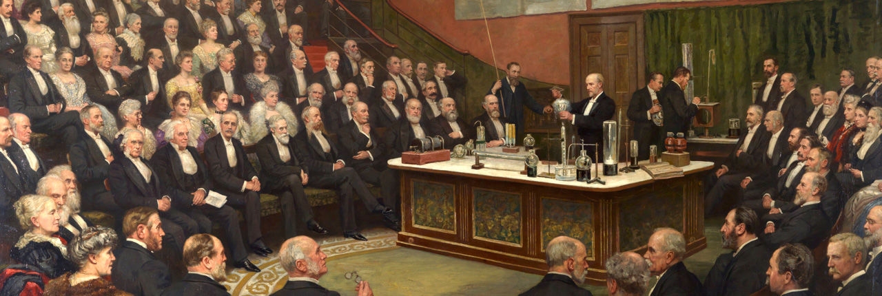 Oil painting of Sir James Dewar Lecturing on Liquid Hydrogen at the Royal Institution